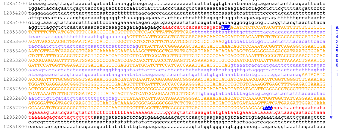 Screen shot of the AMY1 gene from [1] The file being viewed is in the public domain. [2]